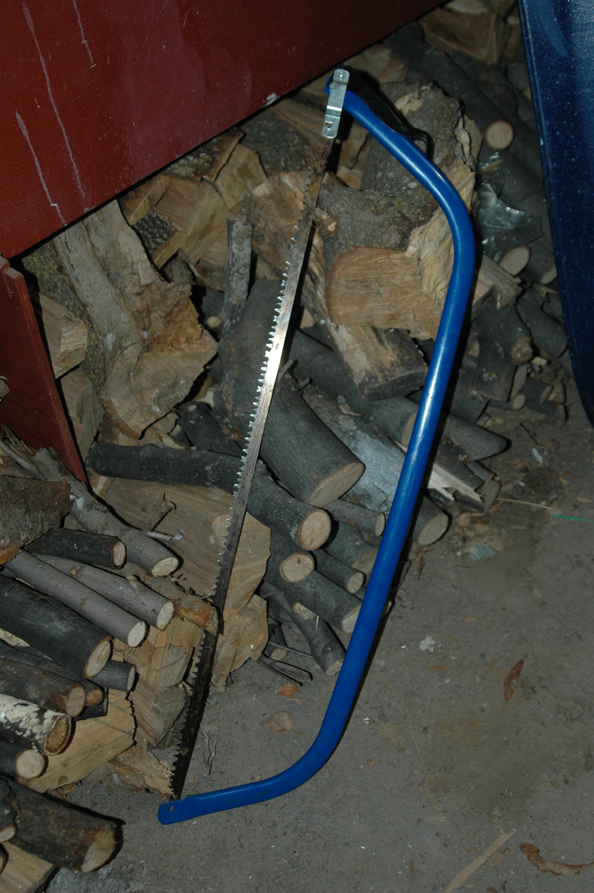 A Bow Saw or Swede Saw resting on some firewood